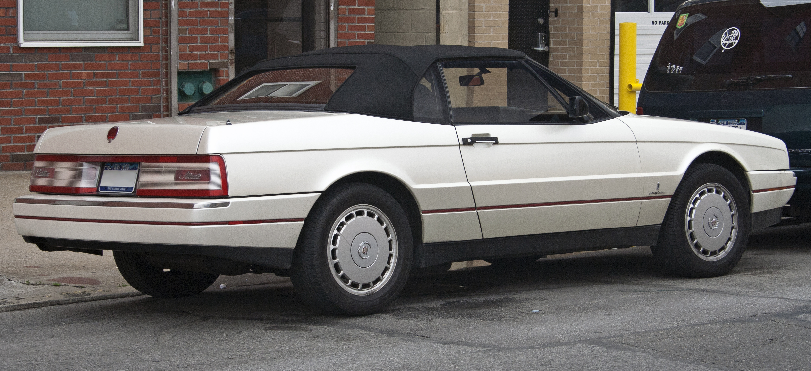 1991 Cadillac Allanté, in period pearlescent white paint